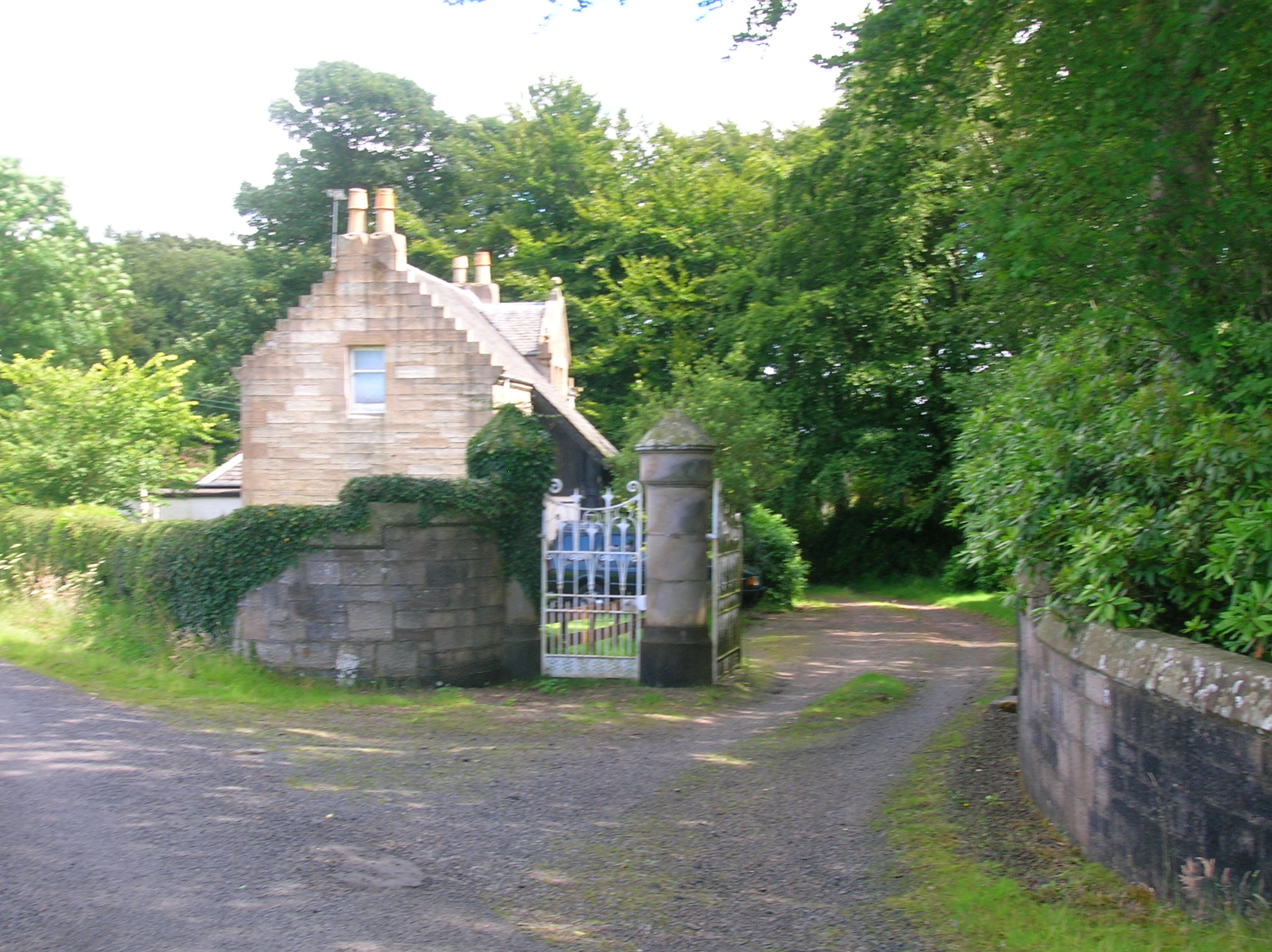 The Gatehouse at Giffin House, near Barmill/Beith, North Ayrshire, Scotland. Rosser 19:48, 24 July 2007 (UTC)